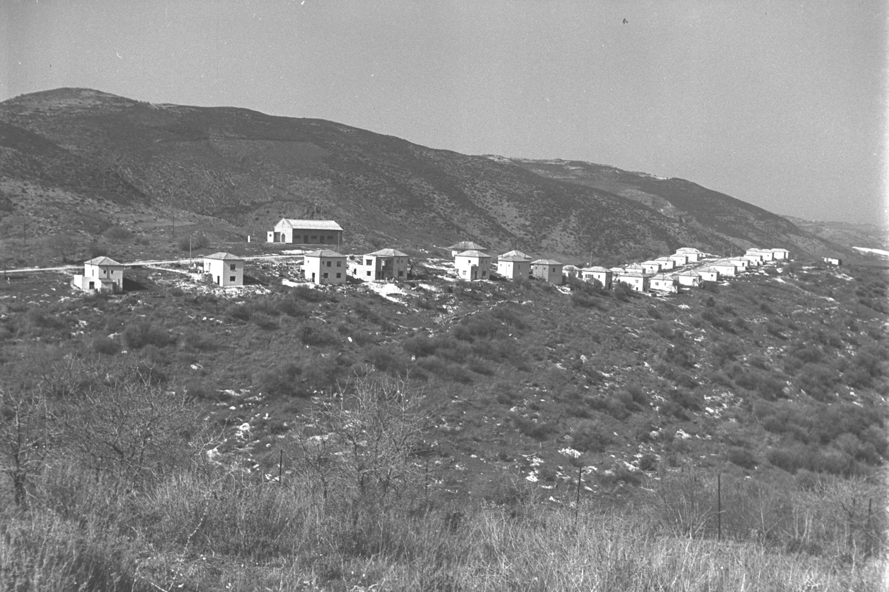 KIRYAT AMAL ON THE EASTERN SLOPE OF THE CARMEL RANGE. קרית עמל בכרמל.